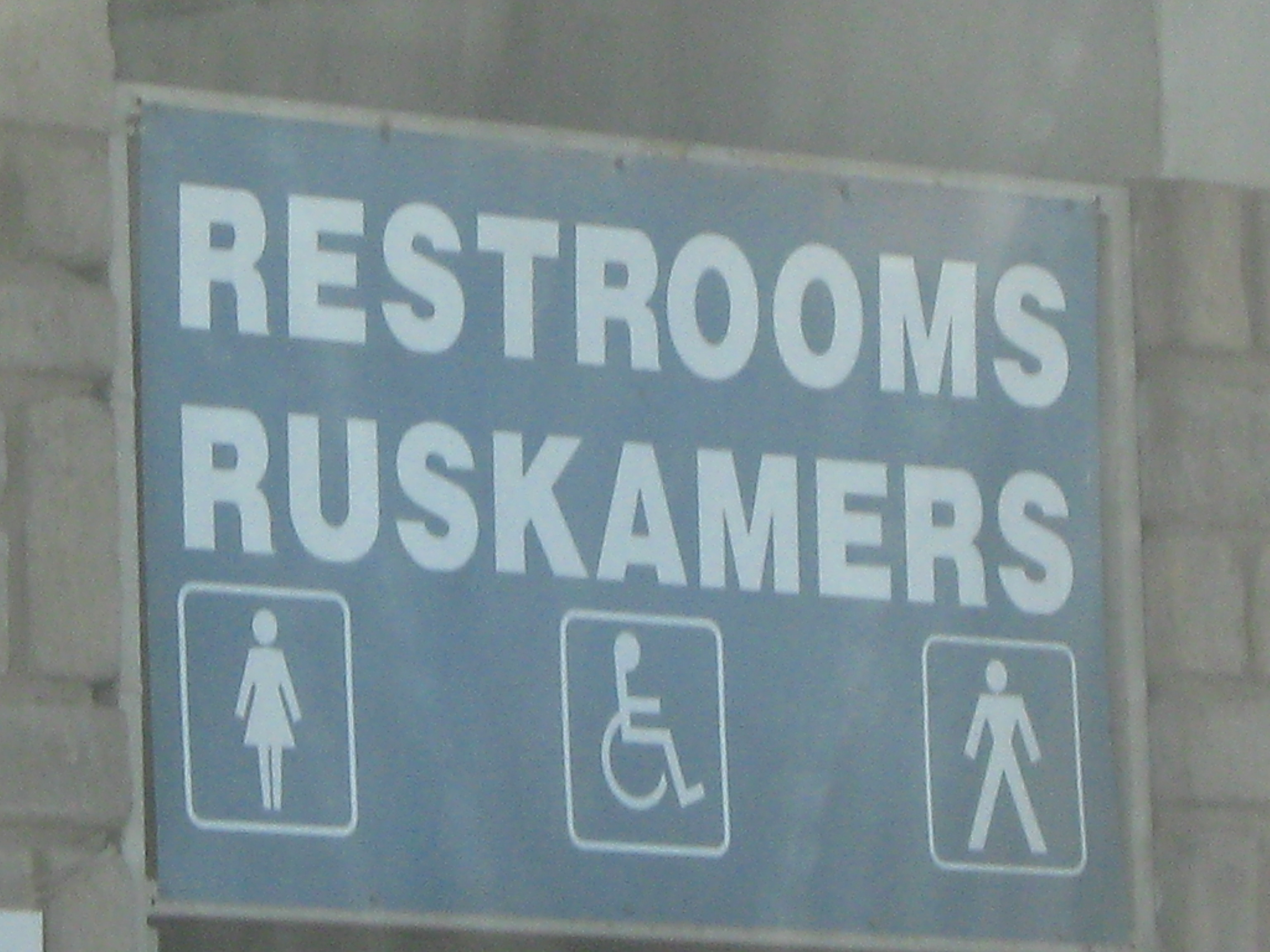 Billingual sign in a Western Cape petrol station (english/afrikaans)